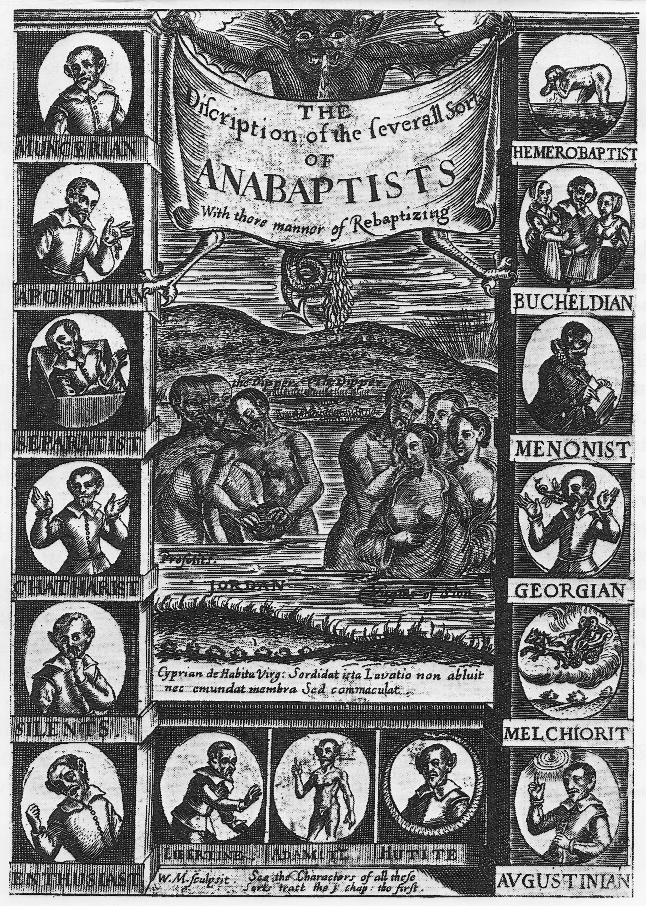 see source below